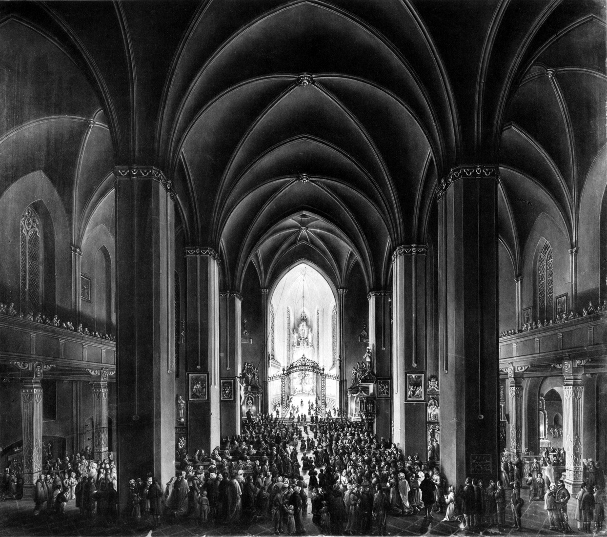 Interior of the cathedral in Frankfurt, illuminated during the Christmas Mass, with many figures, oil on copper